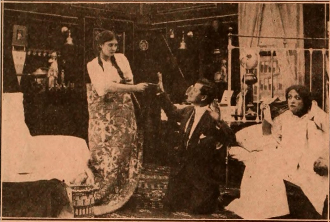 A film still from The Latchkey by the Thanhouser Company.